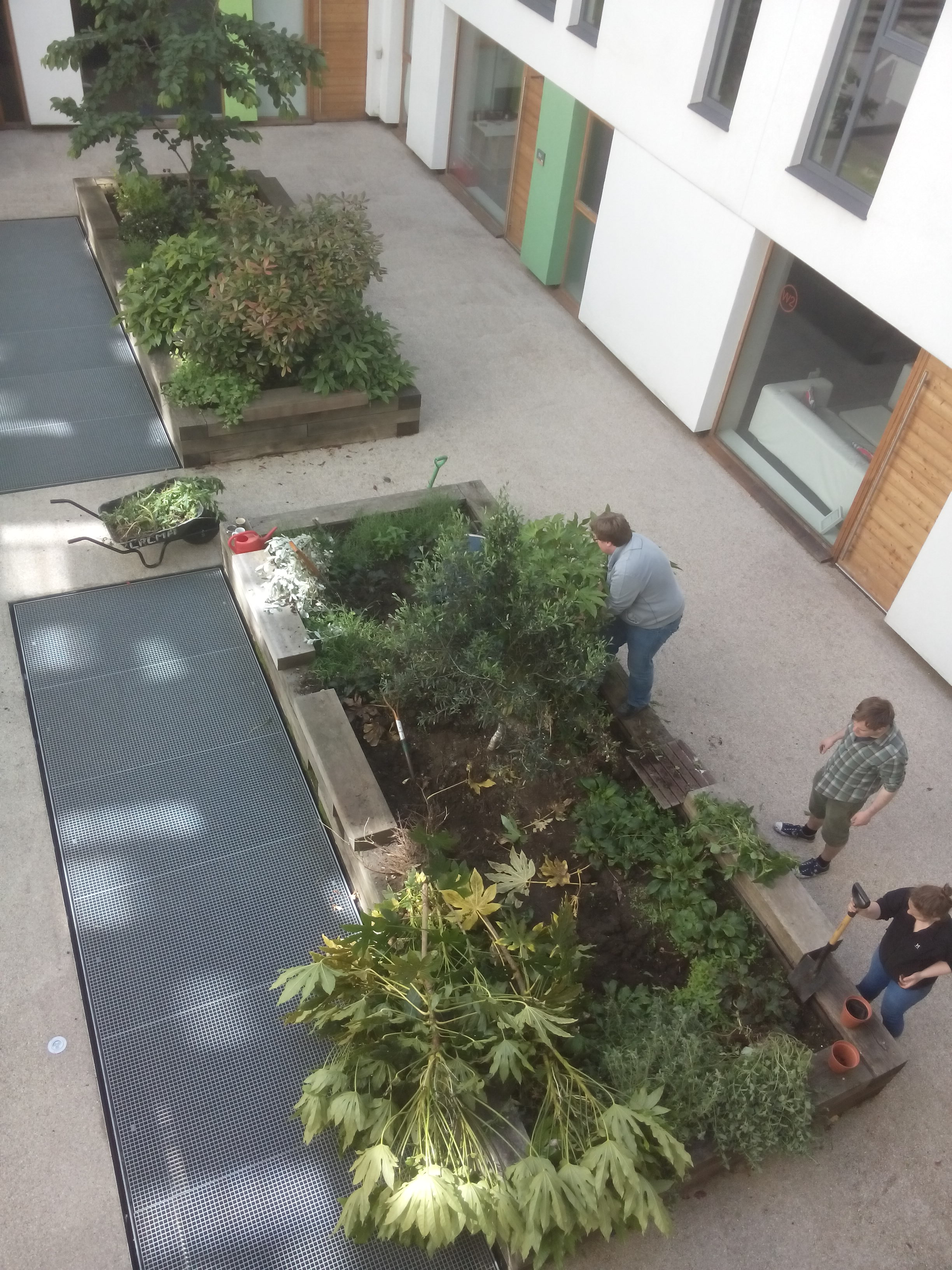 Residents of Greenhouse (Leeds) tend the planters in the courtyard.